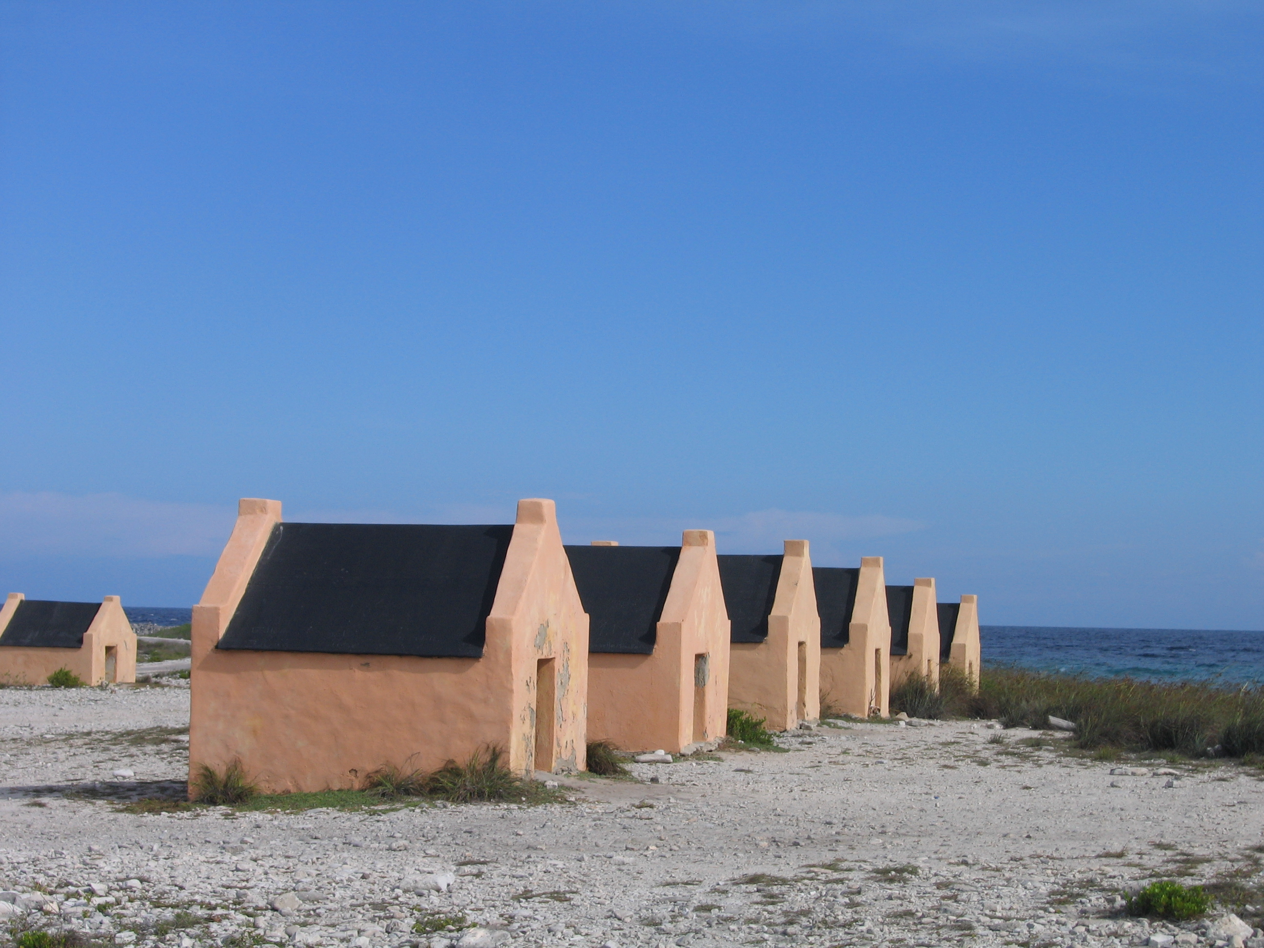 Red Slave Huts, Island of Bonaire. Copyright 2006.